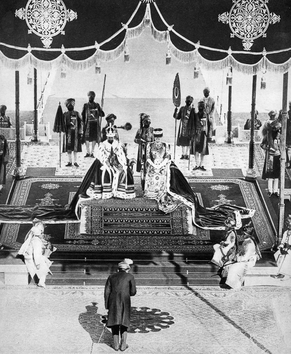 The Nizam of Hyderabad pays homage at the Delhi Durbar, 1911, (1935). The King and Queen travelled to India to attend the Delhi Durbar, held to celebrate their coronation. Osman Ali Khan, Asif Jah VII became the last Nizam of Hyderabad in 1911. Until his rule ended in 1948 he was reputed to be the richest man in the world. A print from King Emperor's Jubilee, 1910-1935, by FGH Salusbury, Daily Express Publications, London, 1935. (Photo by The Print Collector/Print Collector/Getty Images)